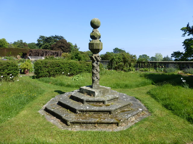 Balcarres House sundial